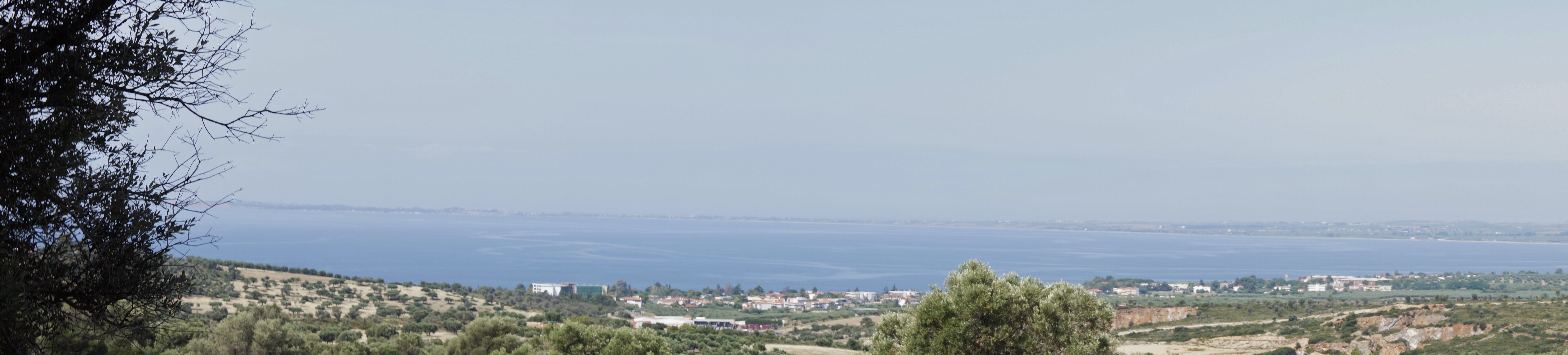 The Gulf of Torone, Toronean Gulf,(Gulf of Cassandra) skyline from the mountain Trikorfo in the east, Yerakini, Chalkidiki, Central Macedonia, Greece, Jun 2014